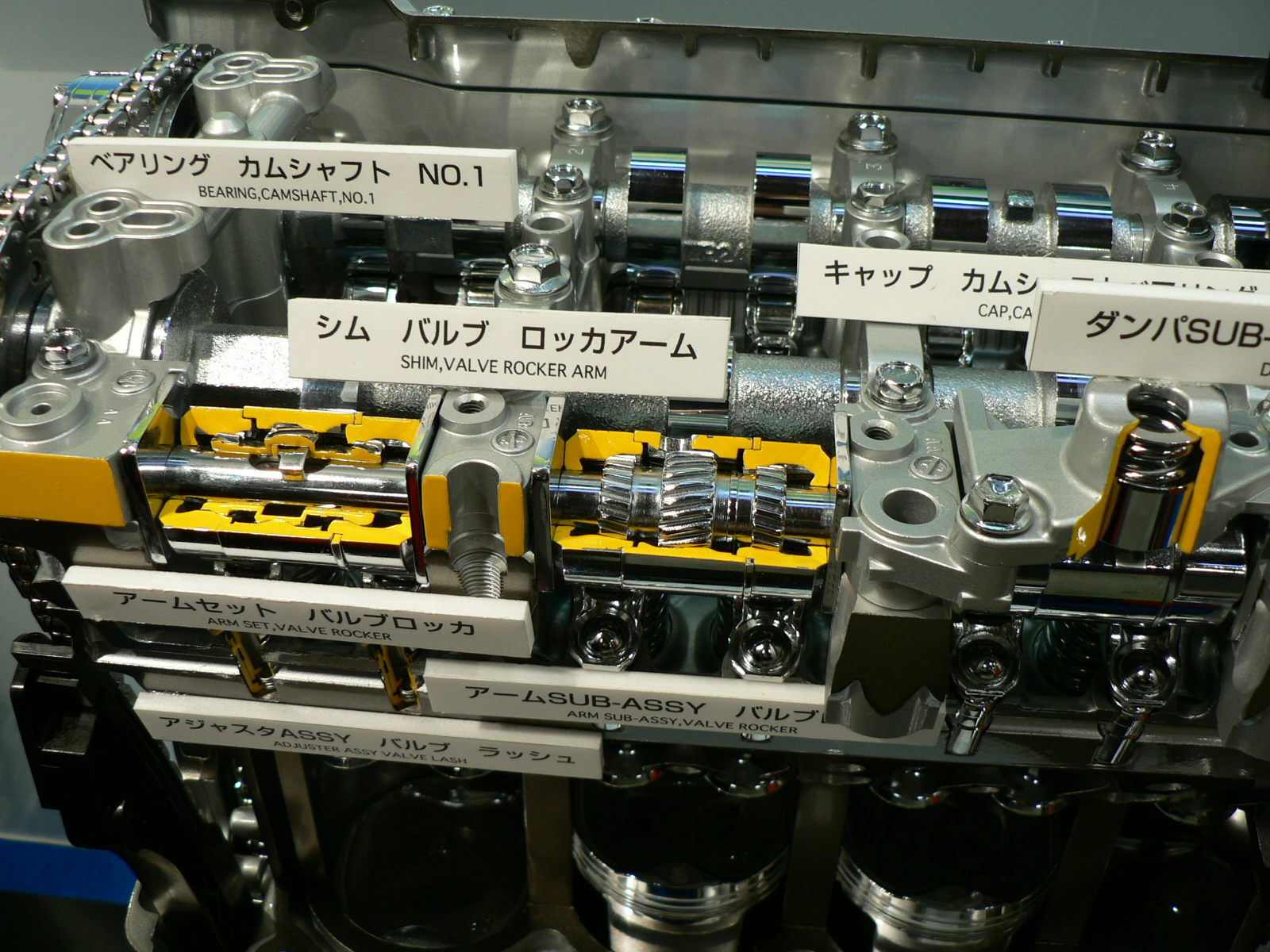 TOYOTA VALVE MATIC by OTICS CORPORATION at Tokyo Motor Show 2007.